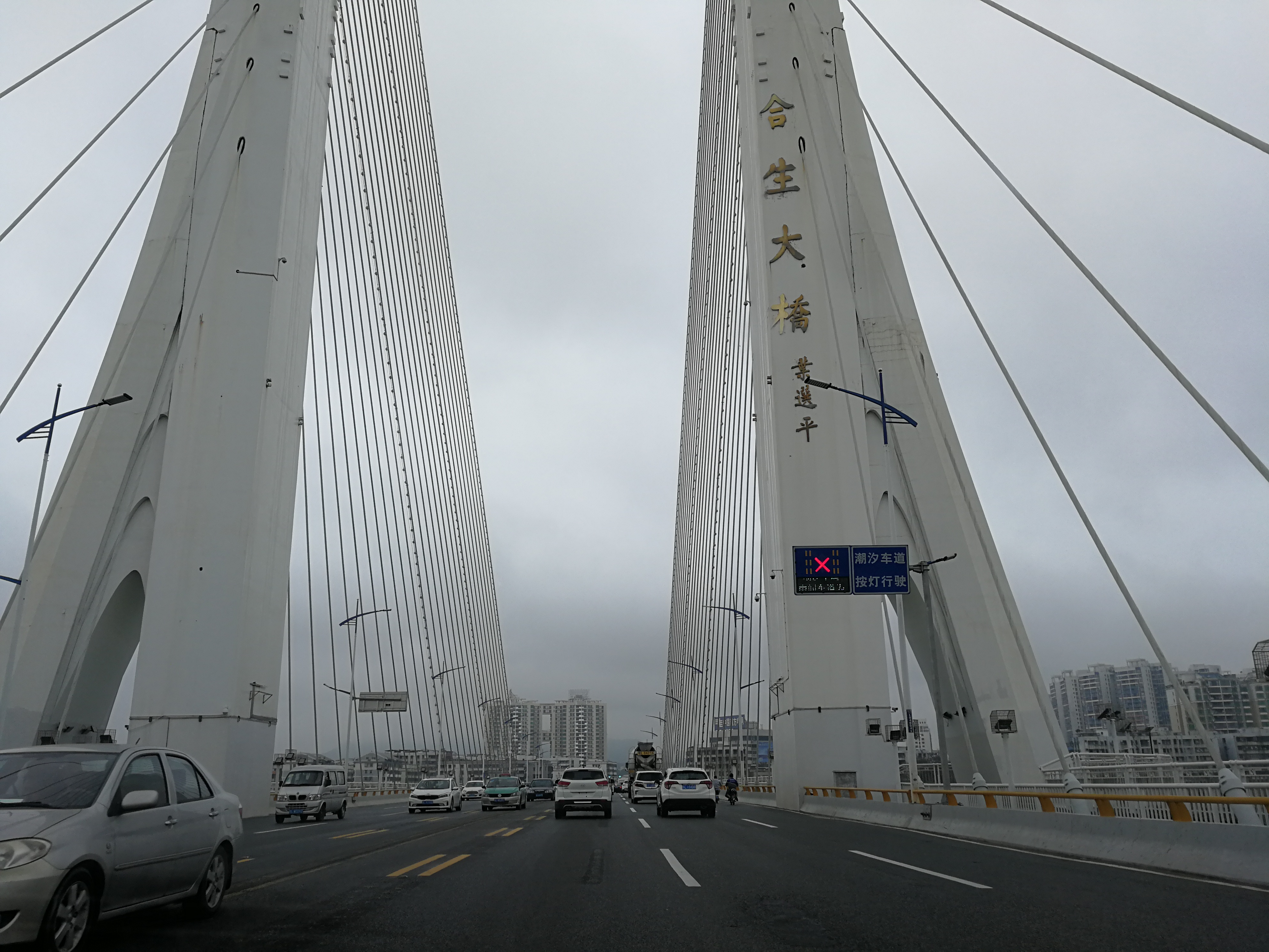 The calligraphy of "Hopson Bridge" written by Ye Xuanping.